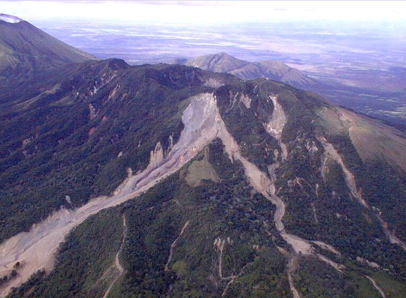 This image shows the Casita volcano in western Nicaragua after a mudslide caused by Hurricane Mitch in October of 1998.